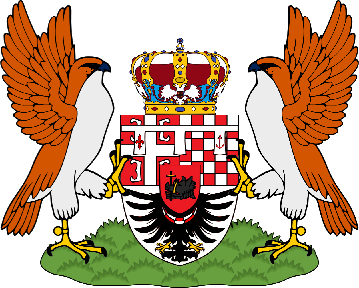 Coat of Arms of Prince Tomislav Karadjordjevic